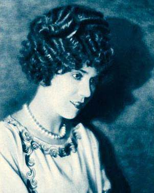 Publicity photo of Louise Fazenda from Stars of the Photoplay. Louise Fazenda, the comedienne of the kinky curls, was born in Lafayette, Indiana, in 1895. She was educated at St. Mary's Convent. At the age of fifteen she left school and joined a dramatic stock company to play ingenue parts, but her sense of humor and her love of grimacing behind the backs of other players soon proved that she was not intended for serious drama. She made her screen appearance in 1913 in a one-reel Universal comedy and has been busy ever since. She is five feet, five inches tall, and weighs 138 pounds. She has light brown hair and hazel eyes.